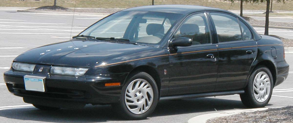 1996-1999 Saturn SL photographed in USA.